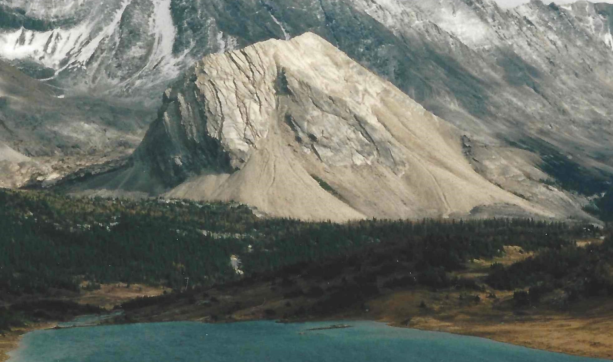 Tilted Mountain in Banff National Park, Canada. View is from Deception Pass area.